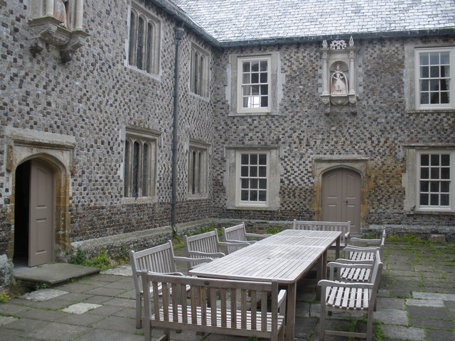 Inner courtyard, Cadhay House